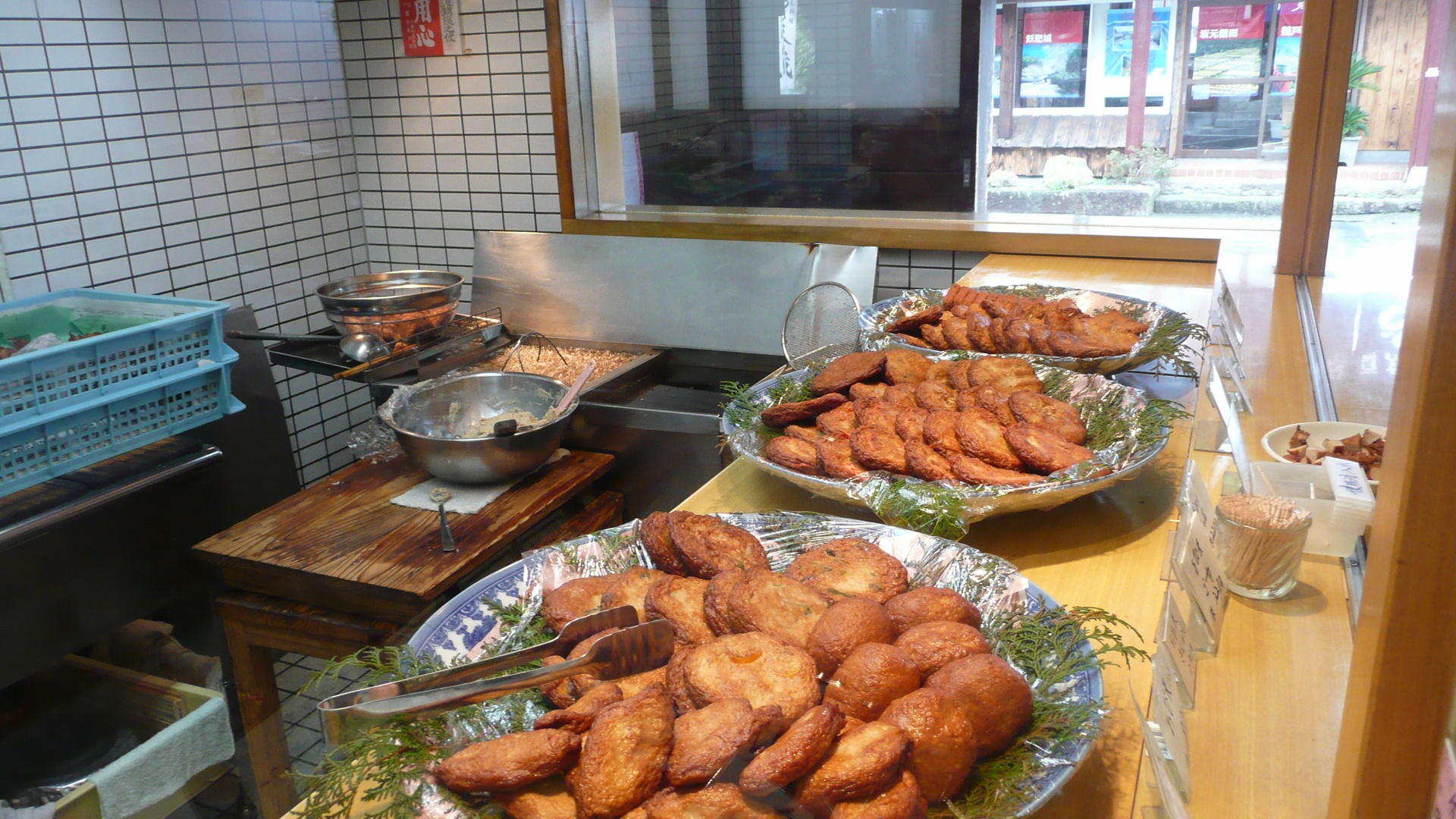 Obi-ten (Nichinan City, Miyazaki, Japan)